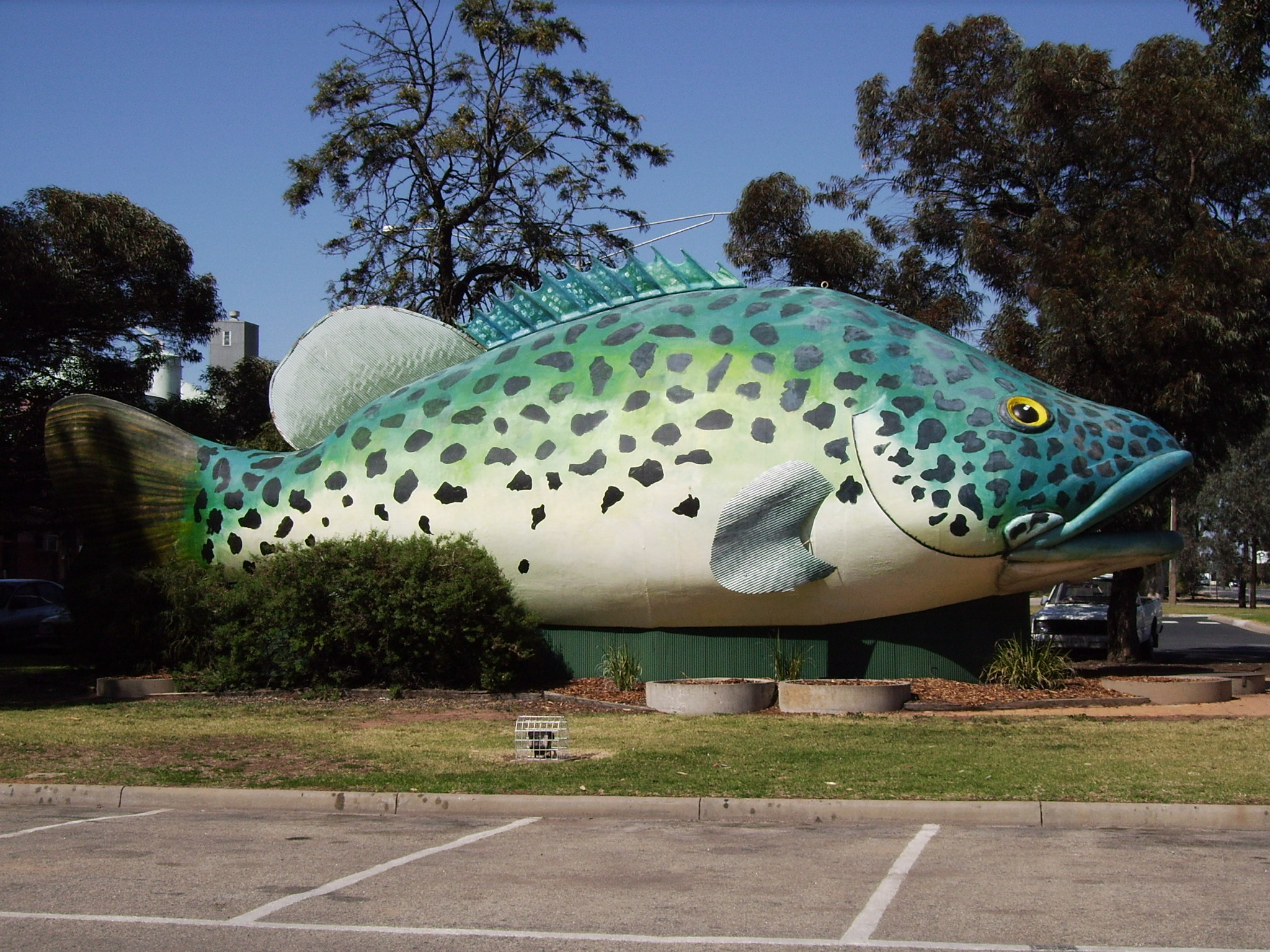 The Big Murray Cod, Swan Hill (VIC)The Big Murray Cod, Swan Hill, Victoria